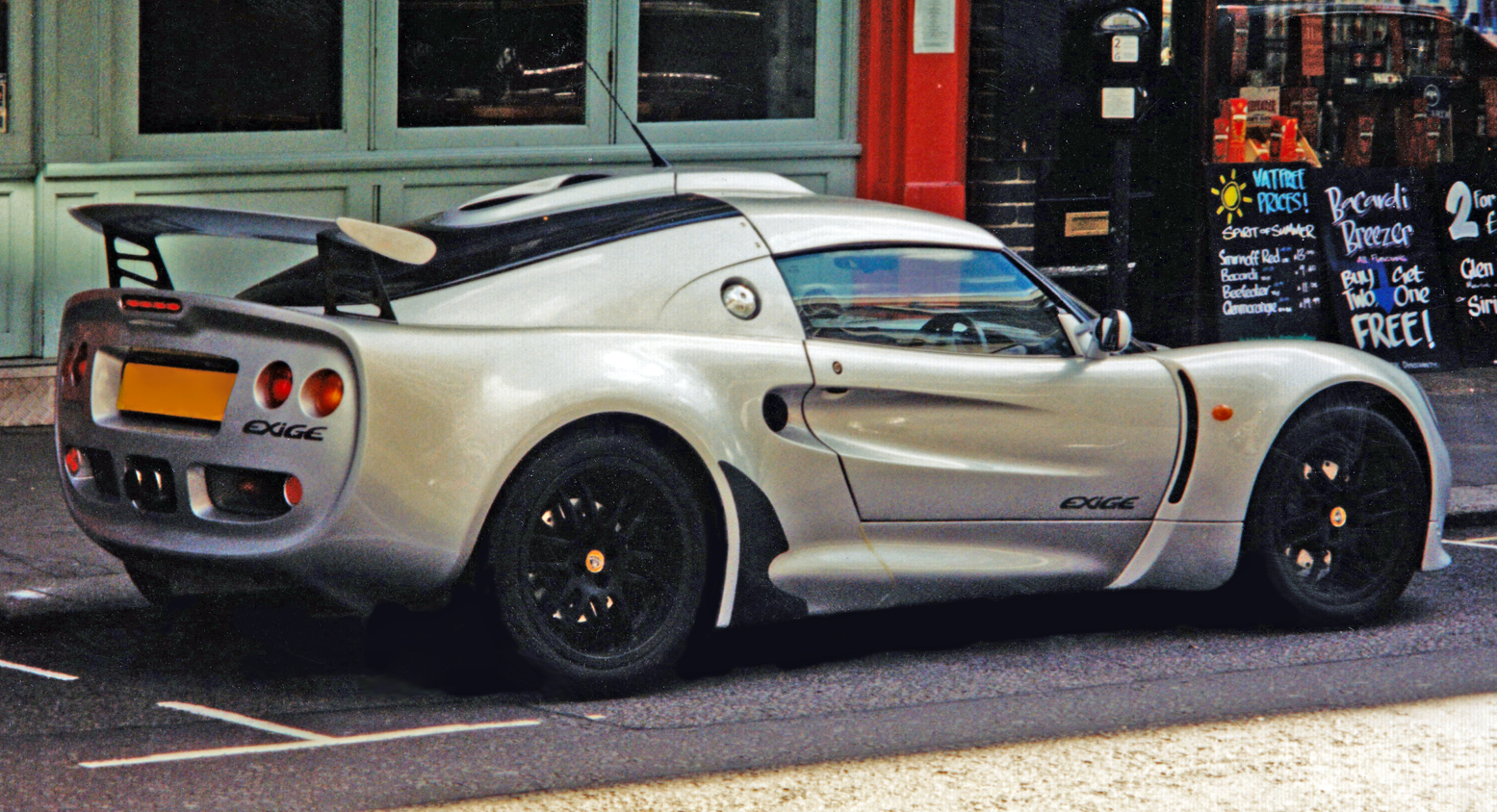 A 2001 Lotus Exige Series 1 in London